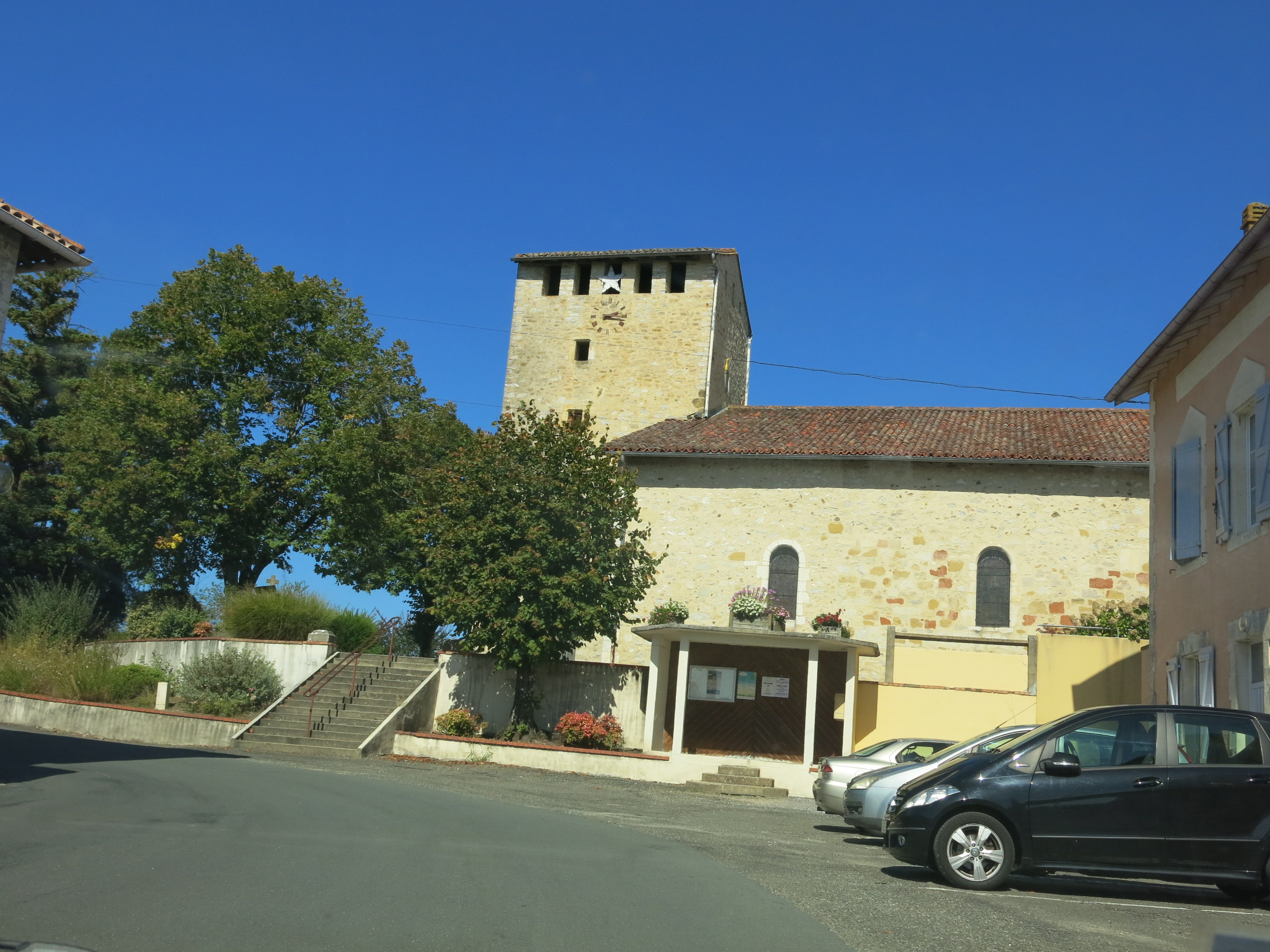 Church Saint-Saturnin in Pey (Landes, France).